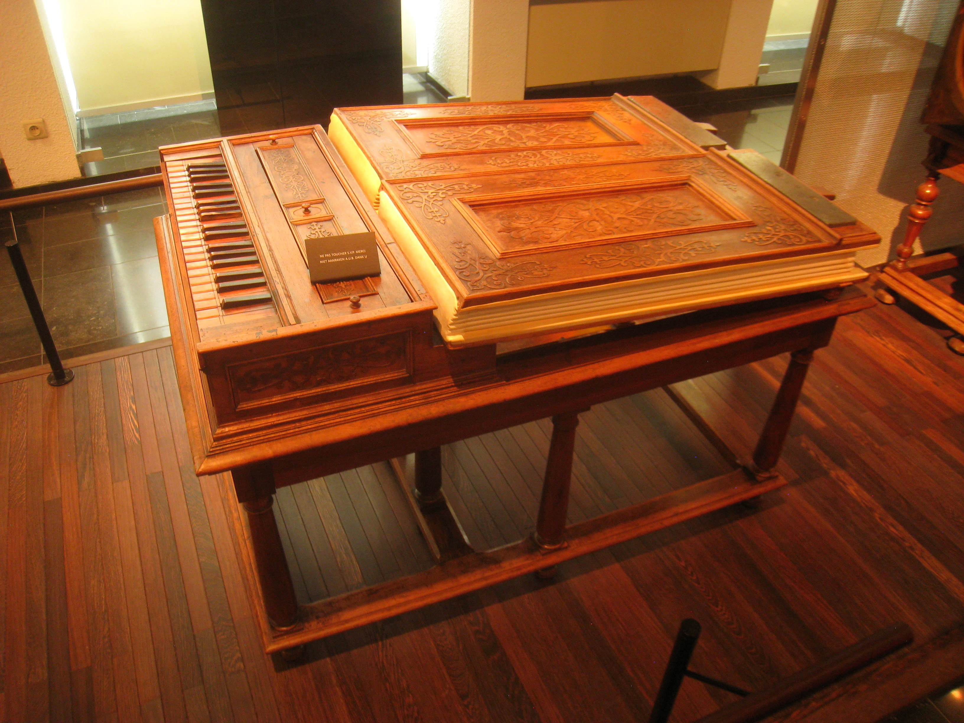 Keyboard instrument in the Musical Instrument Museum, Brussels, Belgium. Frauenfield Abbey, Switzerland, ca 1600 - regal organ.